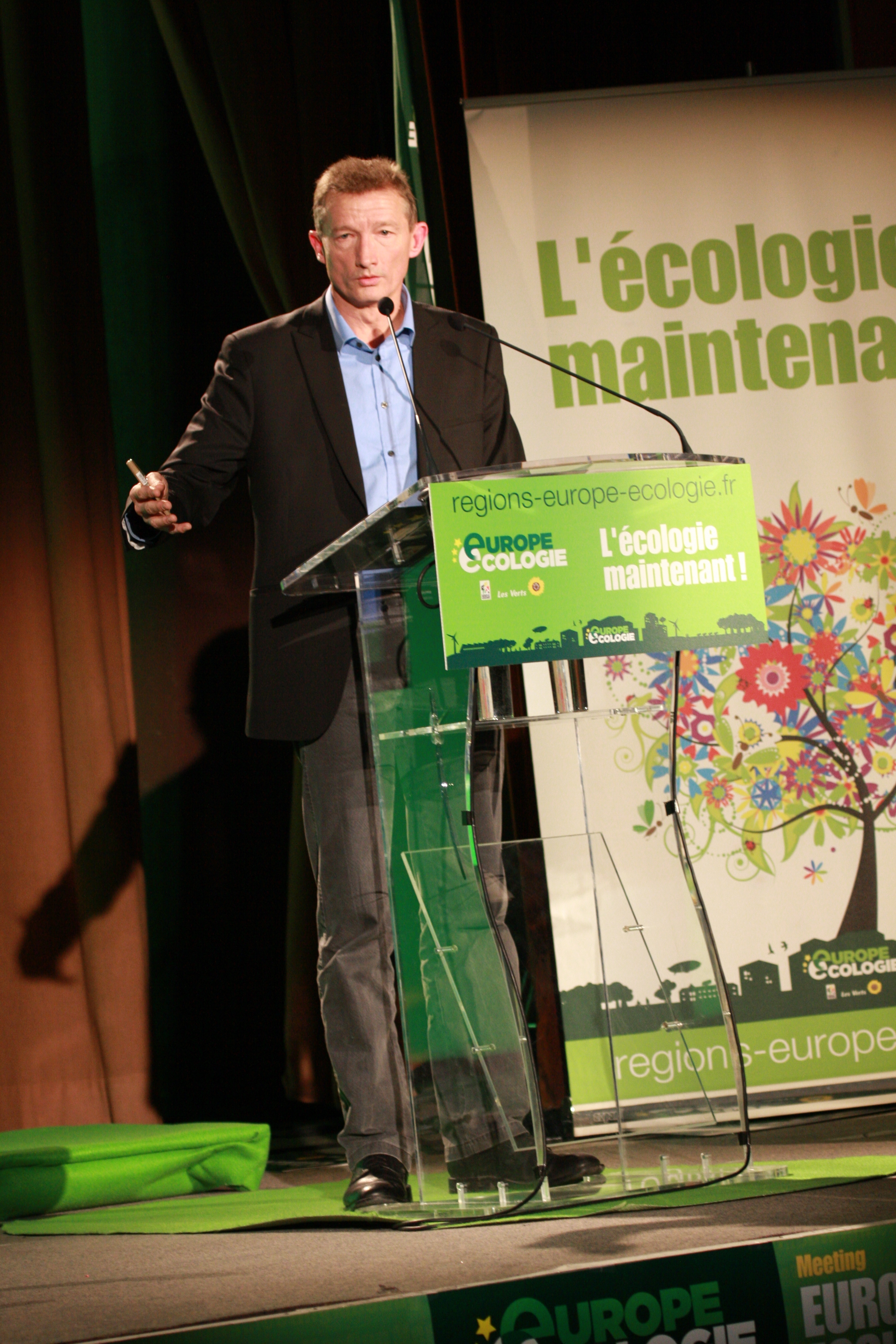 Jean François Caron speaking at the national rally of Europe Écologie in Lens, January 2010.